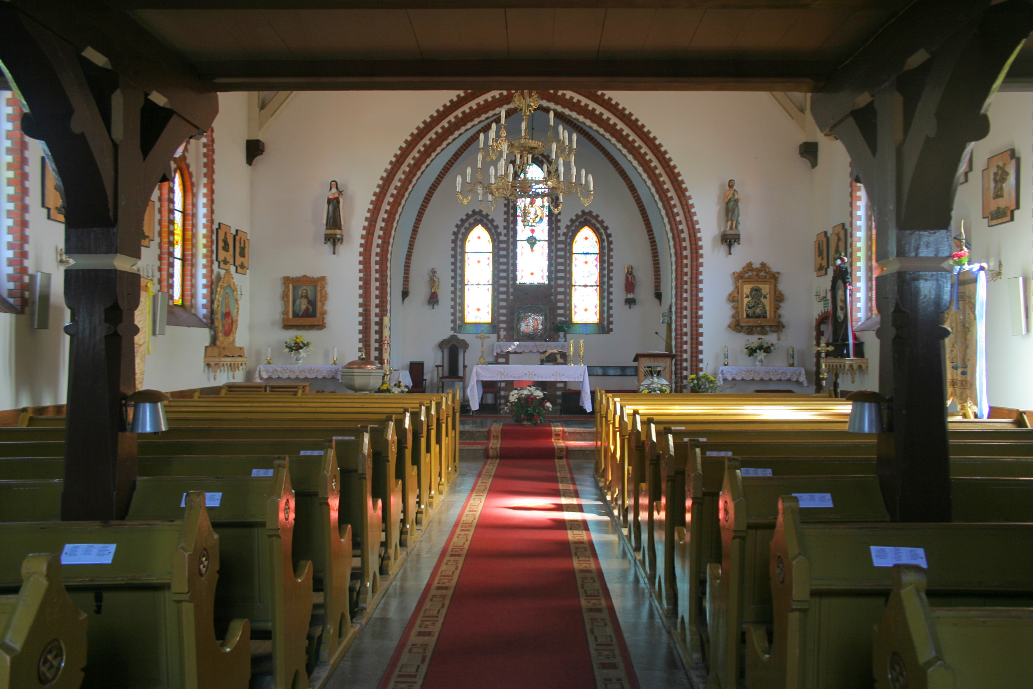 Church in Leśniewo.